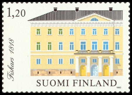 Postage stamp depicting the Finnish Fiskars manor in Pohja